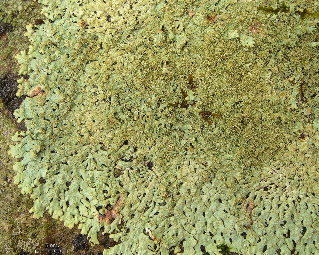 Myelochroa obsessa 20091027.55 US, NC, Nantahala Gorge